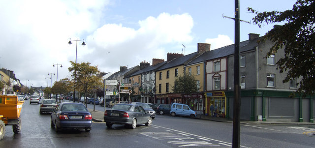 Main Street, Castleisland, Co. Kerry, near to Castleisland, Cloonagh Bridge and Kilcow, Kerry, Ireland. The town is renowned for the width of its main street � the second widest in Ireland and second only to the famous O'Connell Street in the capital. It is always busy with traffic, though, being a junction town for roads (N21, N23, R577) leading in and out of Kerry.